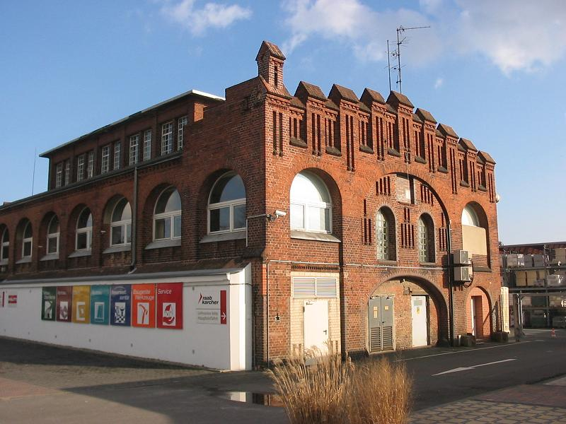 building of the former construction company Hermann Raebel at Berlin-Tempelhof, Teilestraße 9/10; built between 1907 and 1912, protected monument; today used by Raab Karcher Baustoffe GmbH